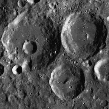 LROC . Lebedinskiy and satellite P at right, Zhukovskiy at left.